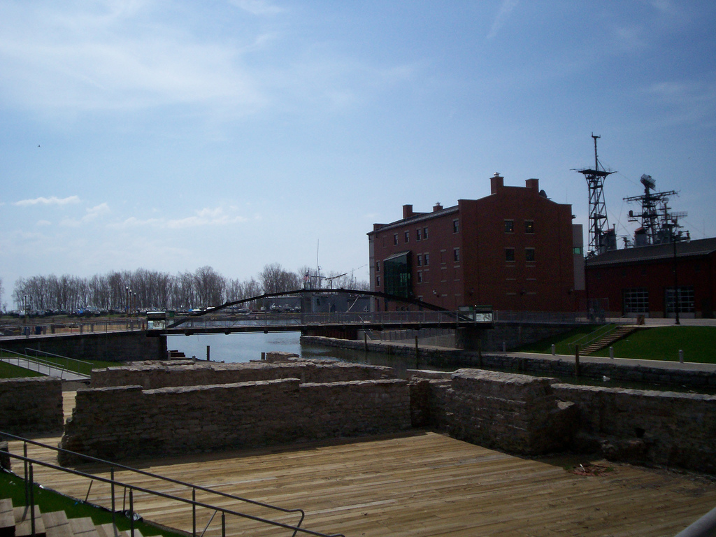 Looking into the Erie Canal Harbor in Buffalo, New York with Naval Museum. The official grand opening was held on July 2, 2008 with attendees such as Hillary Clinton and Charles Schumer. Image taken April 21, 2008.